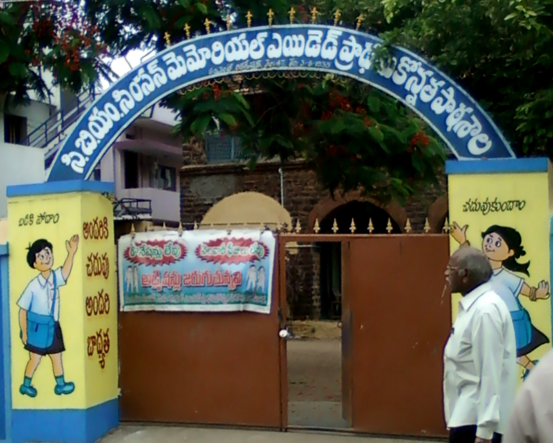 C B M Simpson Memorial Aided School at Kakinada City, Easy Godavari district